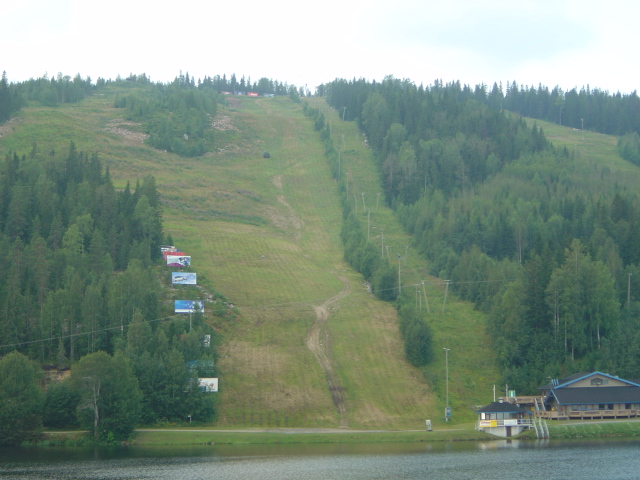 Tahkovuori in Nilsiä, Finland